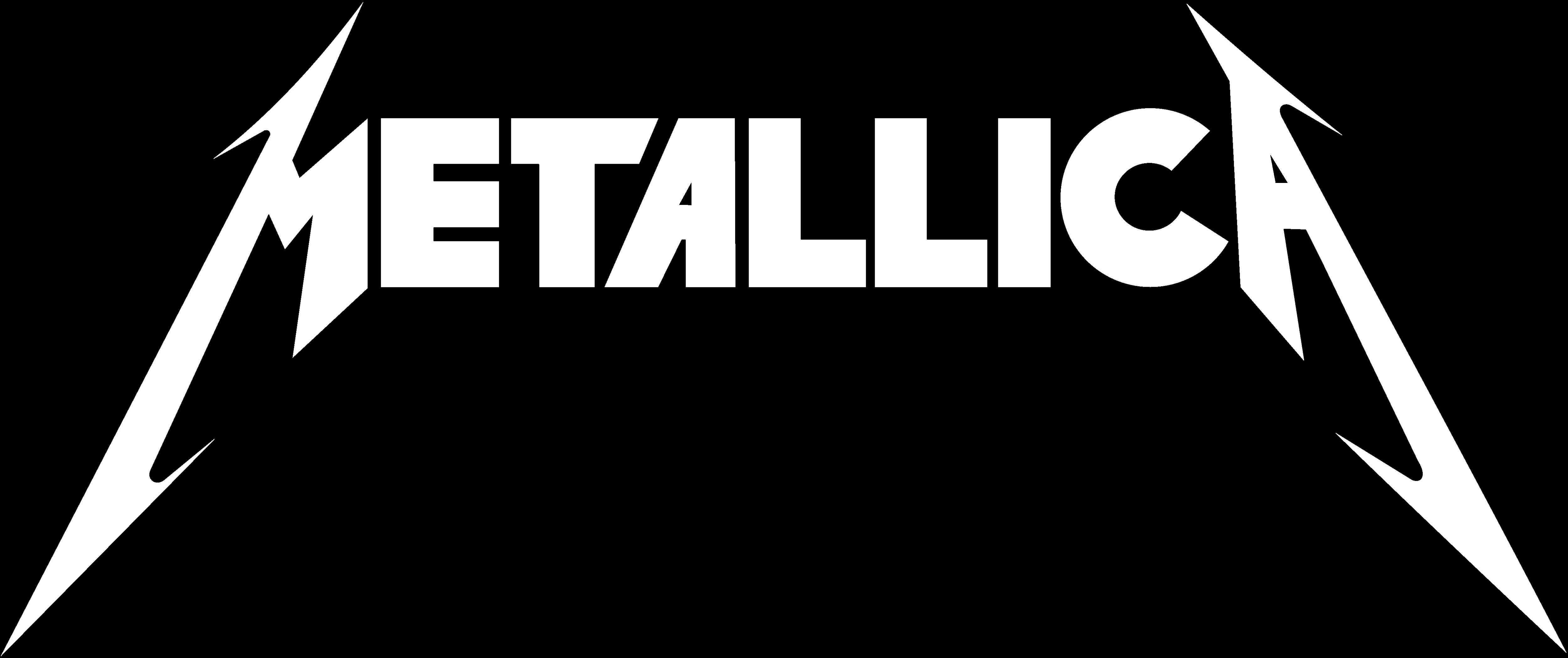 Metallica logo